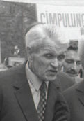 Corneliu Coposu during a demonstration in Bucharest, 1990